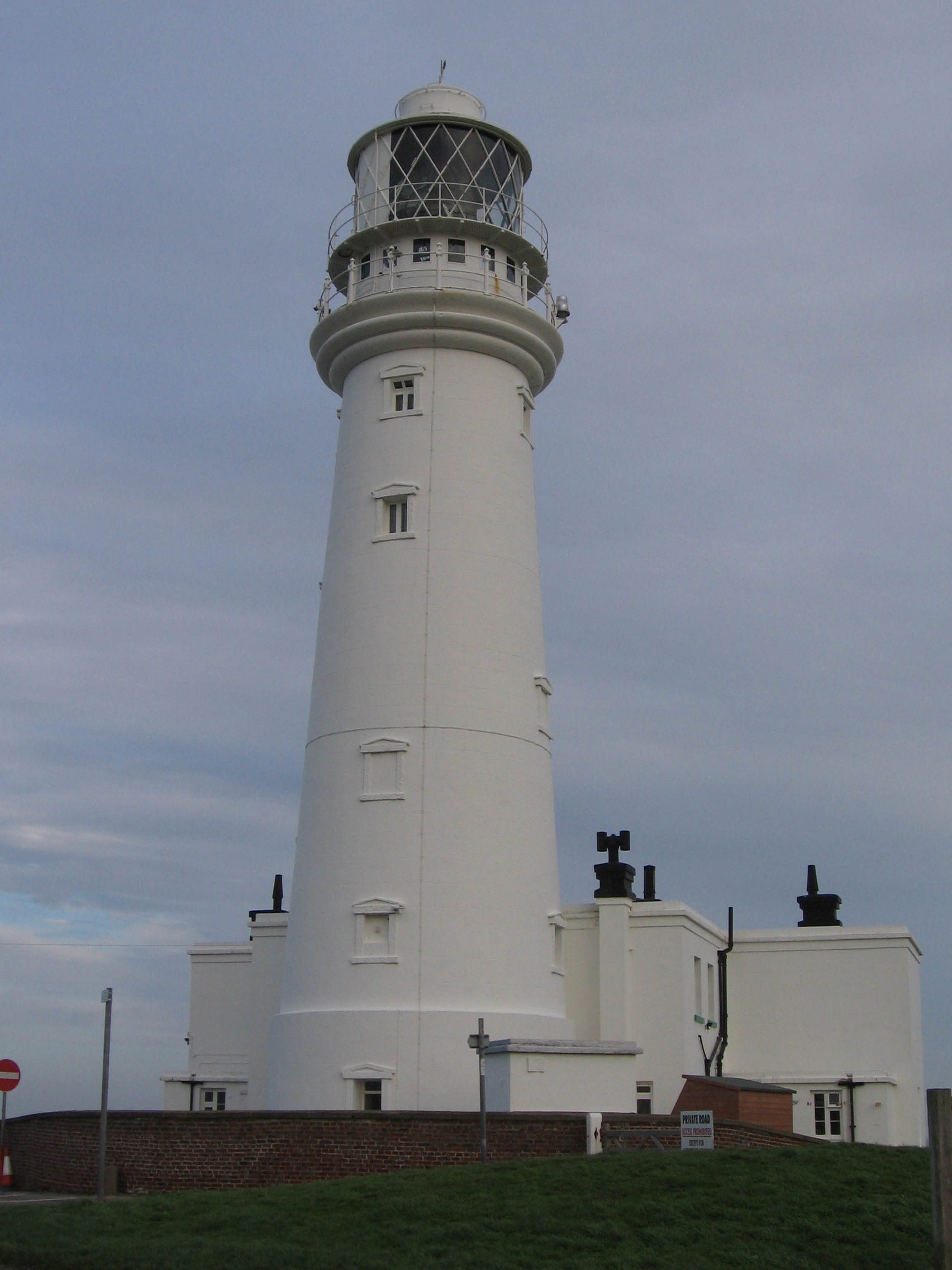 Flamborough Lighthouse, Flamborough, East Riding of Yorkshire, England.Photo taken by me on 30 December 2006